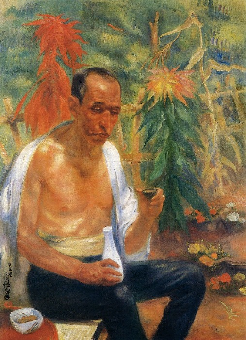 The lunch break.